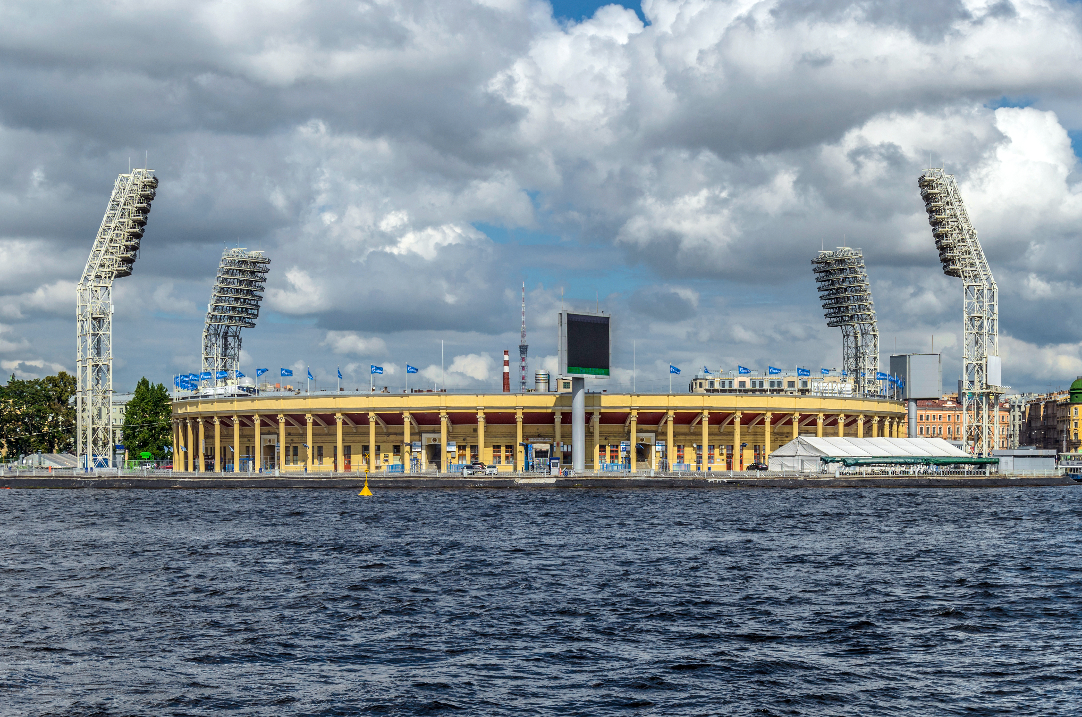 Petrovsky Football Stadium in Saint Petersburg